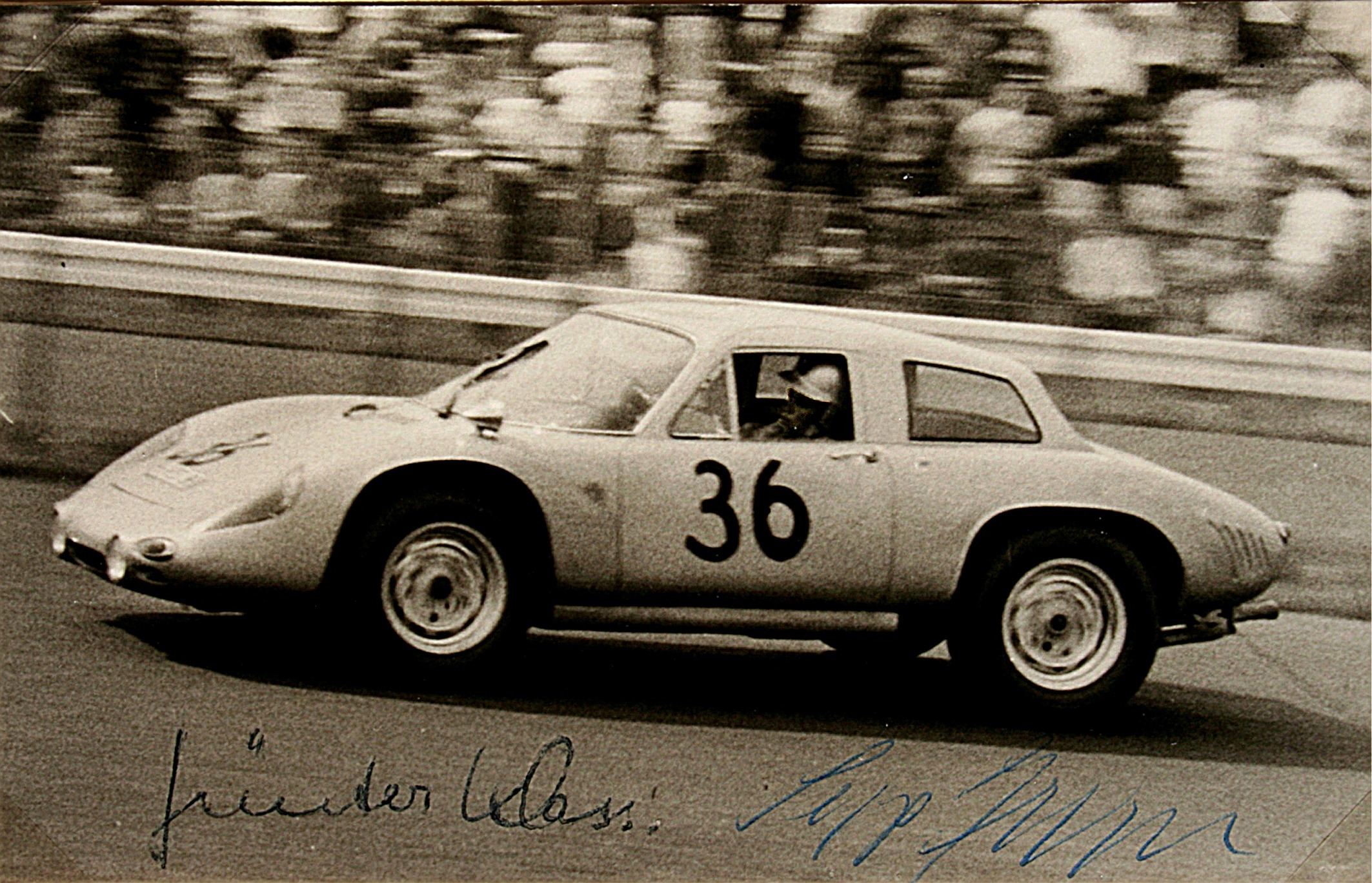 Porsche 356 B 1600 GS-GT "Dreikantschaber", at the 1000-km race at the Nürburgring, Günter Klass at the controls. The second driver was Sepp Greger (autographs of both drivers on the photo print).